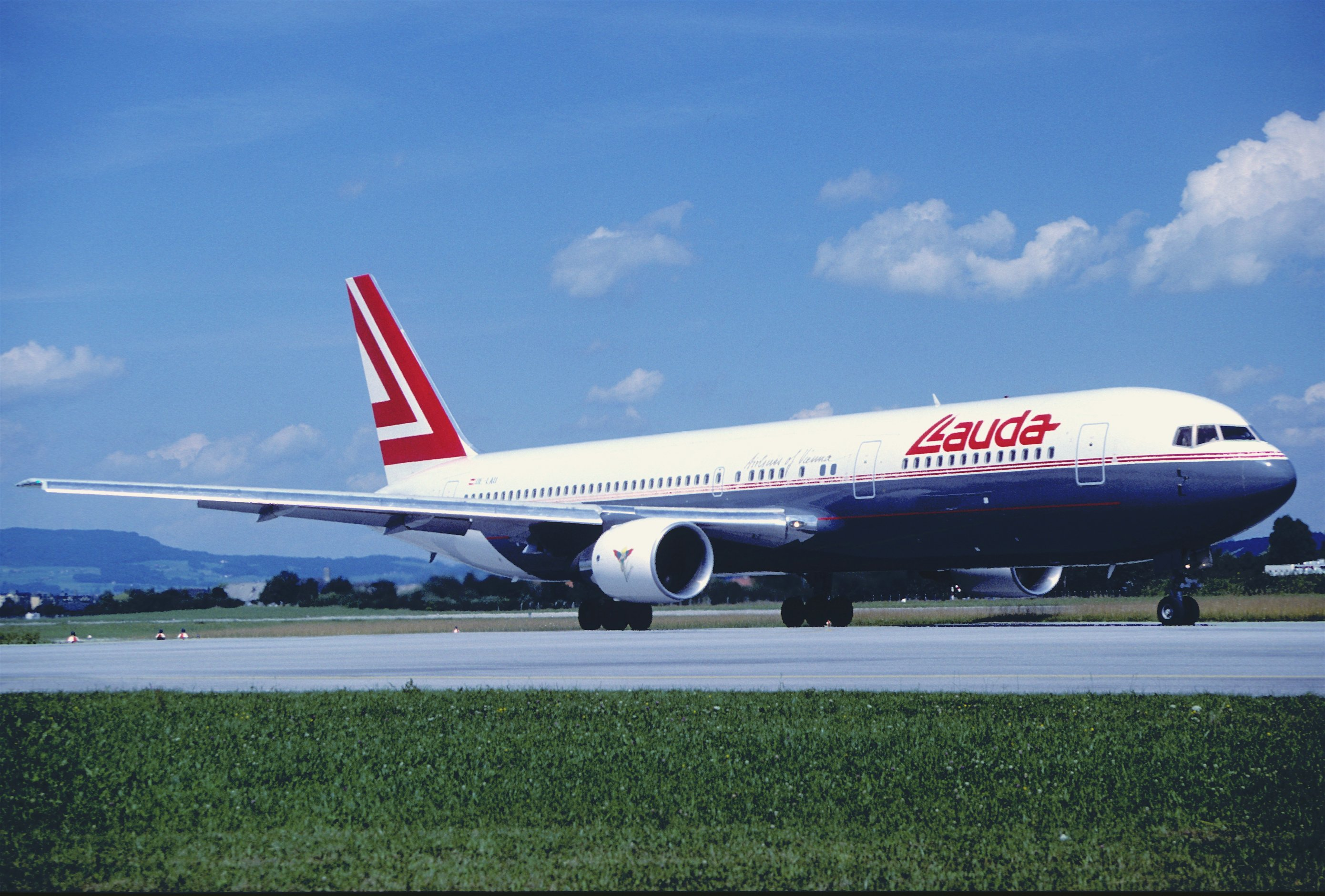 First flight: April 7, 1987... 01/03/1988 Boeing N6009F 29/04/1988 Lauda Air OE-LAU 31/08/1995 Vietnam Airlines OE-LAU 27/09/1995 Lauda Air OE-LAU 01/12/1997 Lauda Air Italy OE-LAU 01/12/2000 Royal Nepal Airlines OE-LAU 03/06/2001 Lauda Air OE-LAU 29/06/2001 Air Atlanta Icelandic OE-LAU 01/10/2001 Lauda Air OE-LAU 10/09/2004 Excel Airways G-VKNG operated by Air Atlanta 15/10/2006 XL Airways G-VKNG ceased operations September 12, 2008 05/02/2009 Ryan International Airlines N763BK